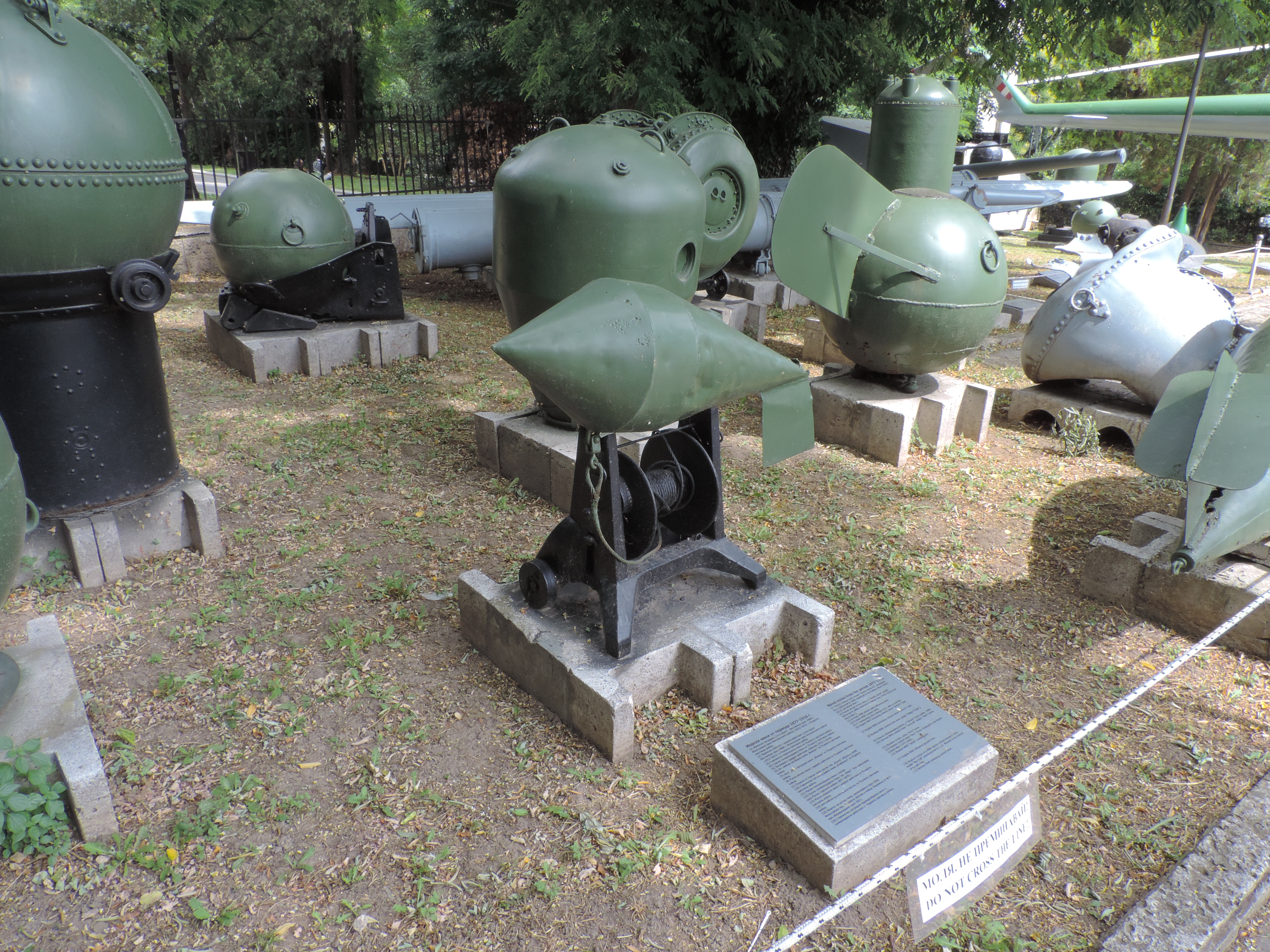 Naval Museum in Varna, Bulgaria